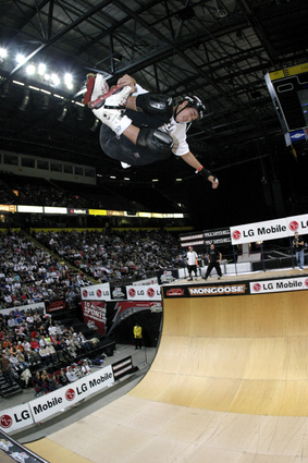 thumper nagasako mute air 2005 world championships